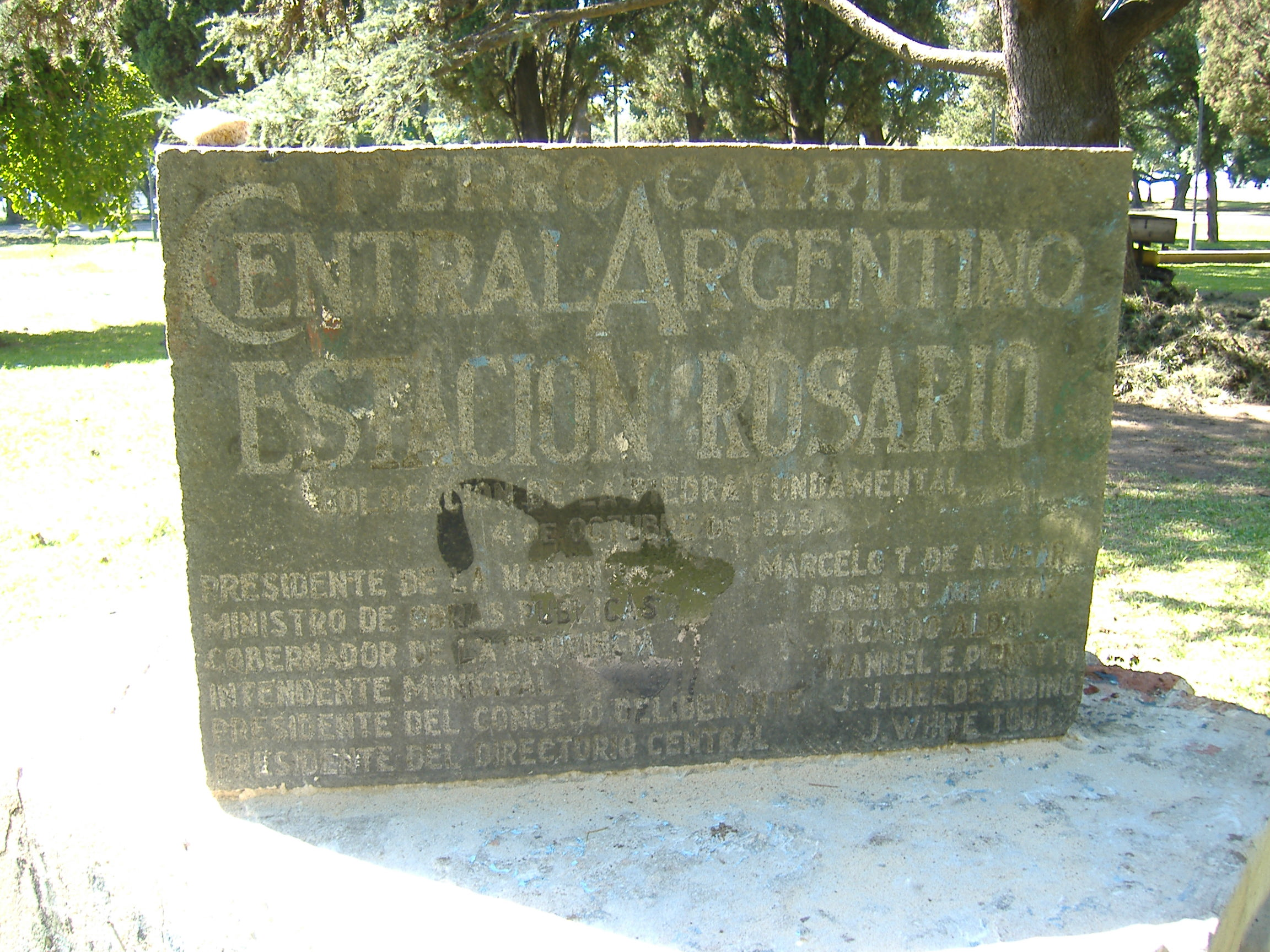 The foundation stone of the Ferrocarril Central Argentino railway company train station in Rosario, Santa Fe Province, Argentina. It is located in a park, at Oroño Boulevard and Rivadavia Avenue. The stone is dated 4 October 1925, and has an account of the local and national authorities: President of the Nation: Marcelo T. de Alvear Minister of Public Works: Roberto M. Ortiz Governor of the Province: Ricardo Aldao Municipal Mayor: Marcelo E. Pichetto President of the Deliberative Council: J. J. Diez de Andino President of the Central Directory: J. White Todd.